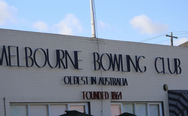 Main clubhouse signage of the Melbourne Bowling Club, proclaiming it is the oldest bowling club in Australia, founded in 1864 Melbourne Bowling Club